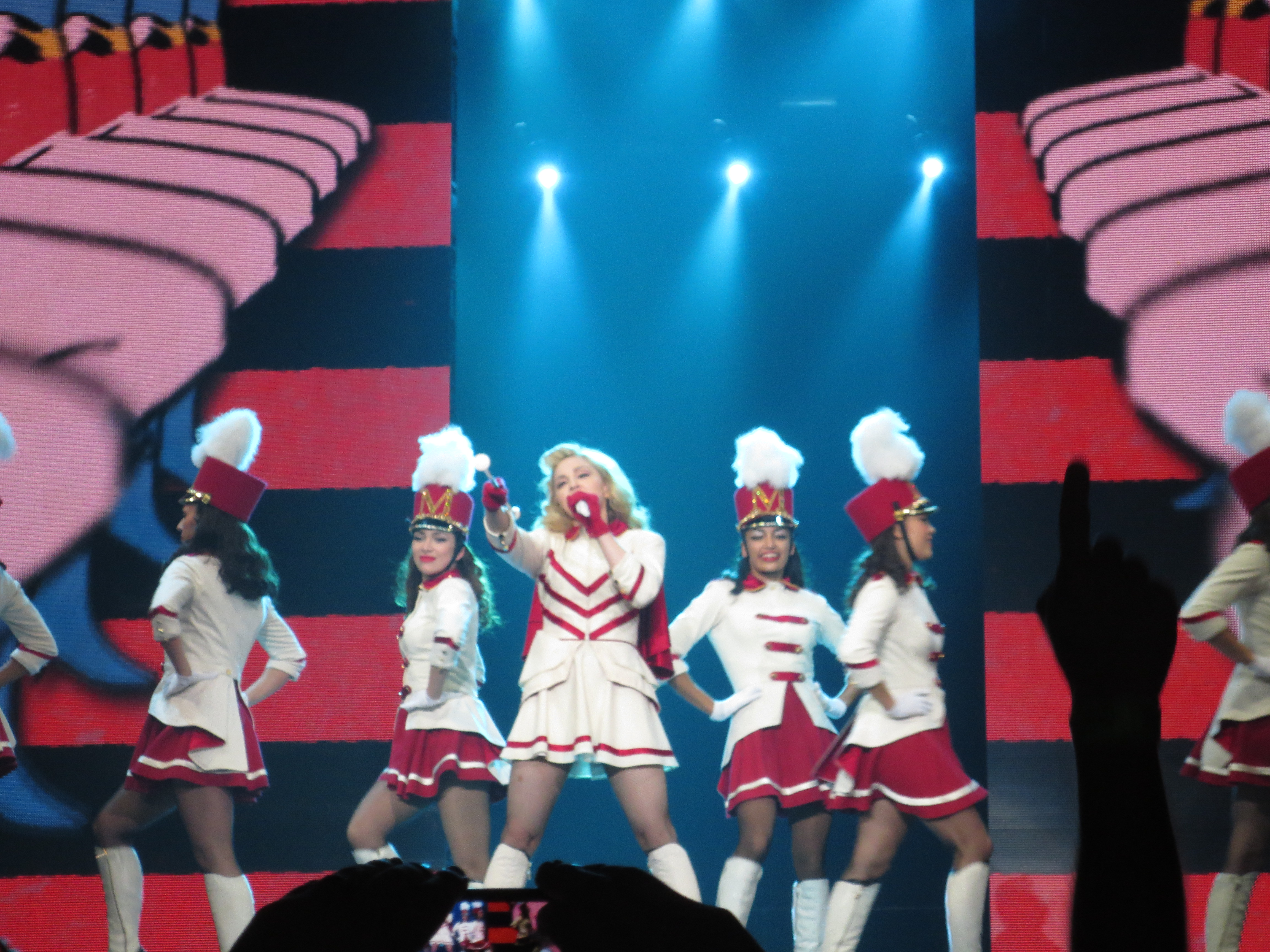 2012 10-25 MDNA Madonna Houston (149)